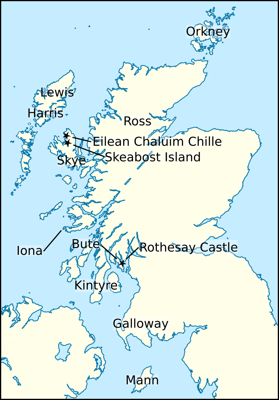 Map for the Wikipedia article concerning Guðrøðr Rǫgnvaldsson, King of the Isles (died 1231).